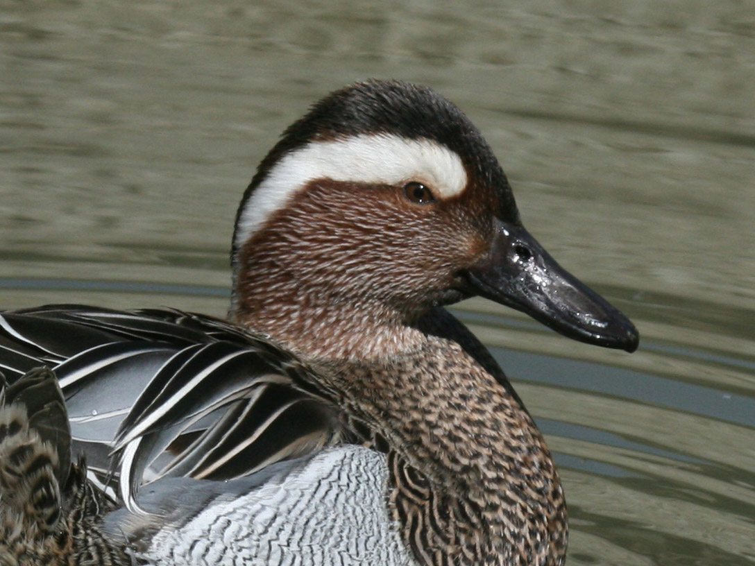 ♂ Garganey (Anas querquedula) at Sylvan Heights Waterfowl Park in Scotland Neck, North Carolina.